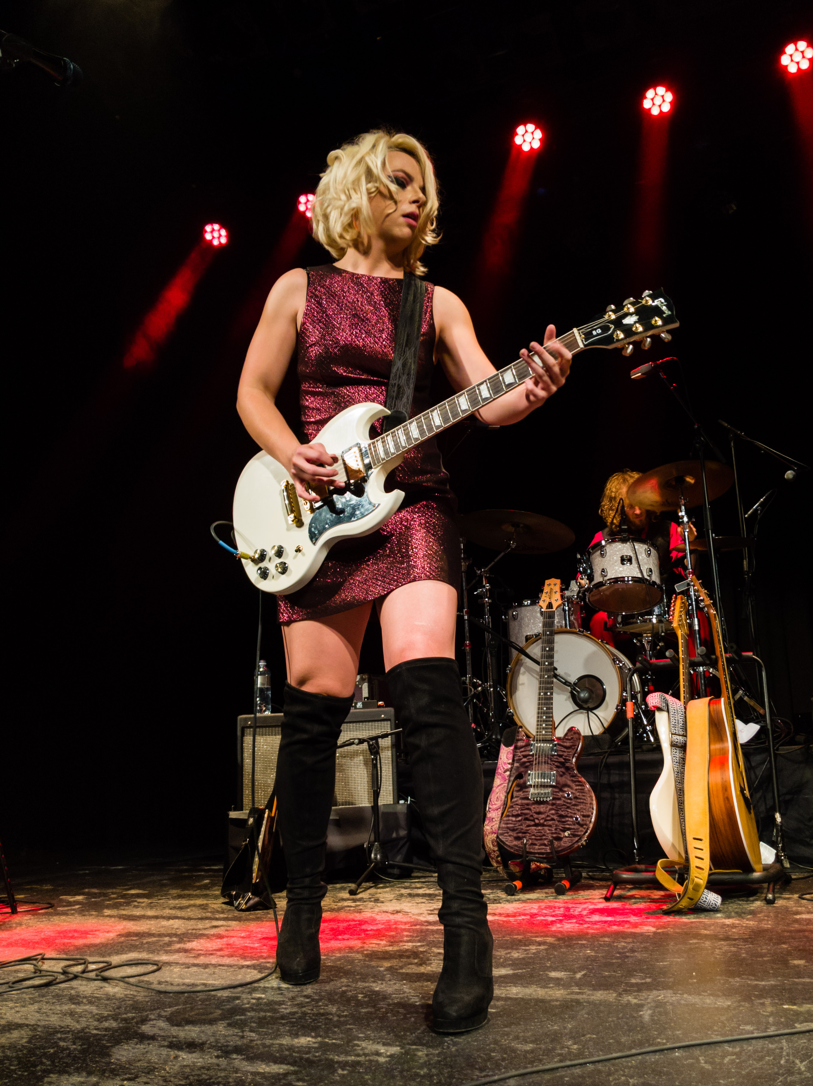 Samantha Fish performing on 28 May 2019 at the Kaufleuten club in Zurich.